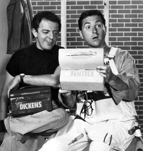 Photo of John Astin as Dickens and Marty Ingels as Fenster from the television program I'm Dickens, He's Fenster.